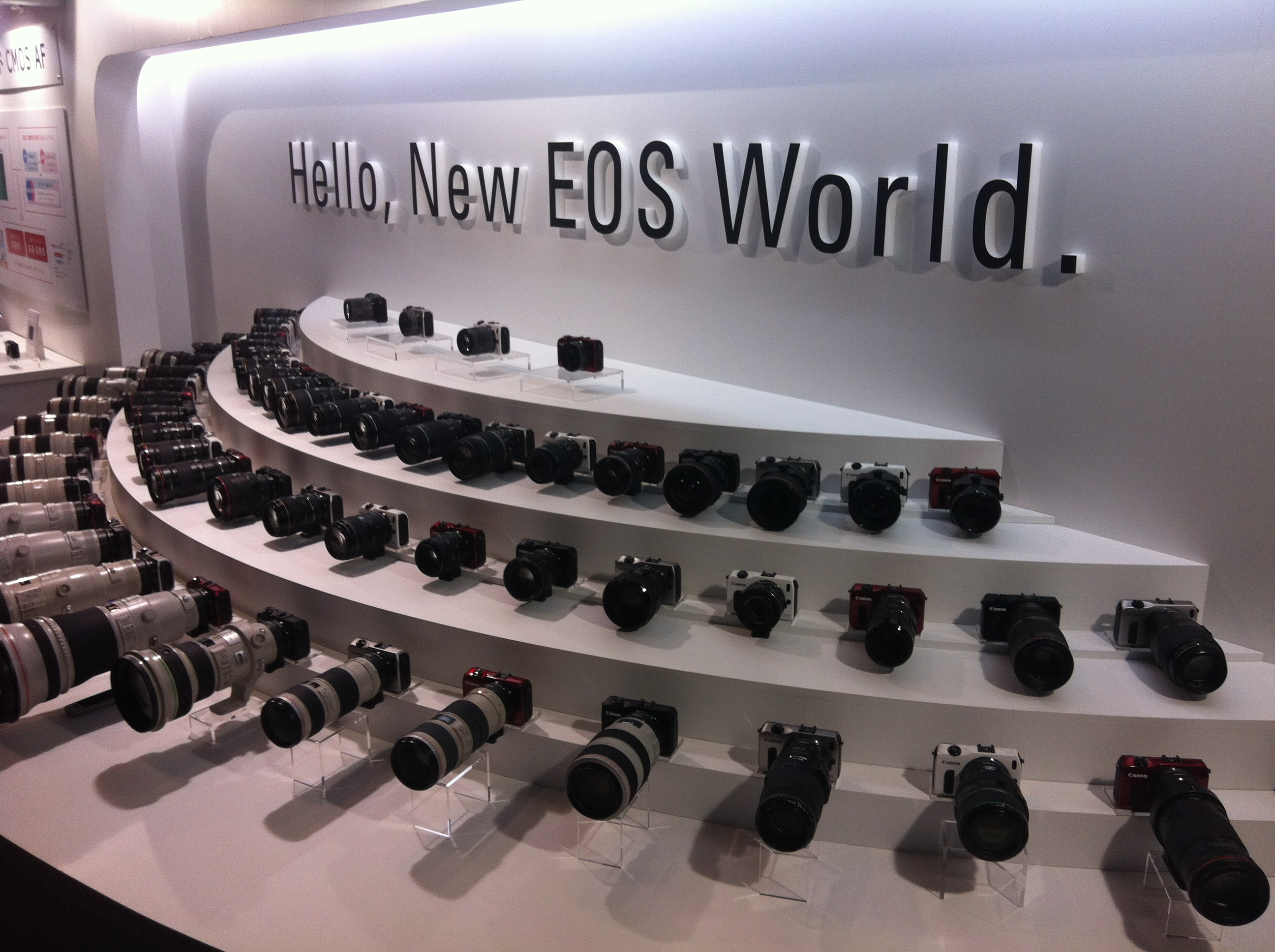 Canon EOS M cameras with different EF lenses